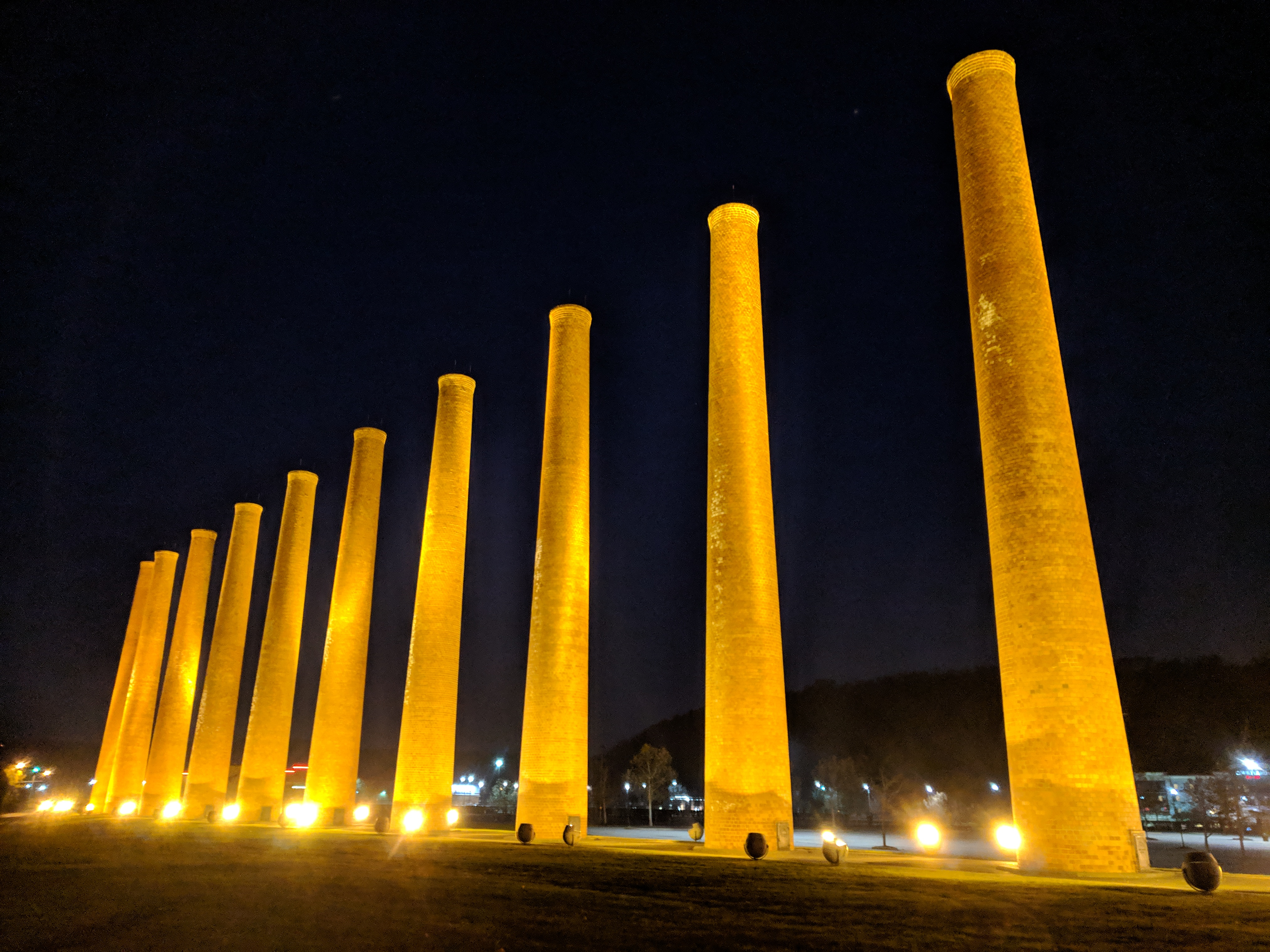 The Waterfront in West Homestead, Pennsylvania